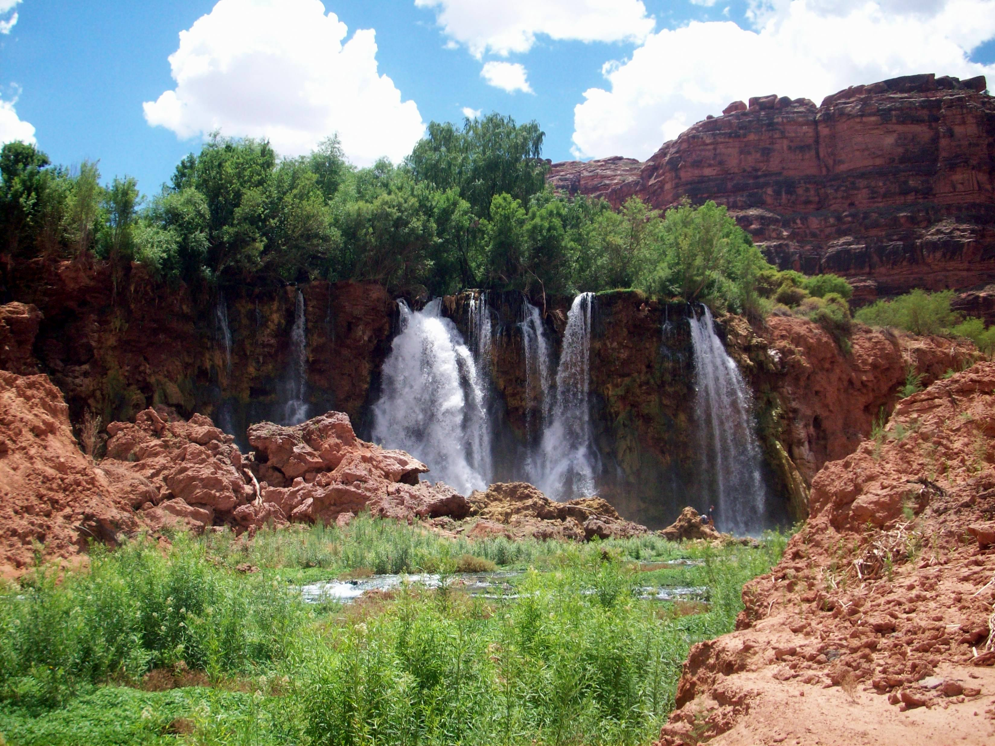 The upper waterfall that was created due to the flood of August 2008 in Havasupai. This waterfall is currently unnamed and somewhat difficult to reach.